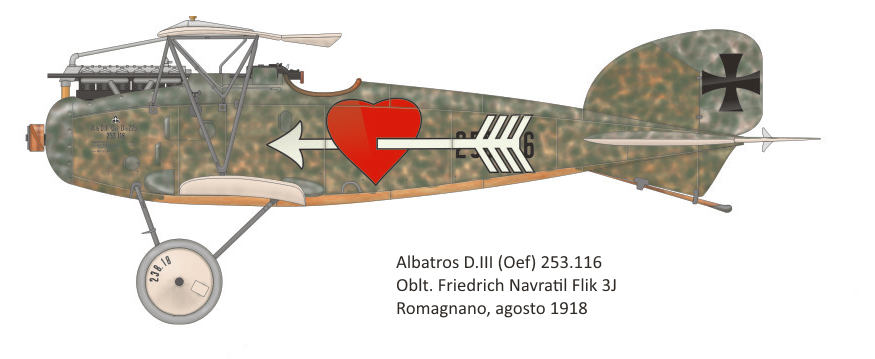 Albatros D.III (Oef) 253.116 Oblt Friederich Navratil Flik 3J Romagnano, Italy august 1918